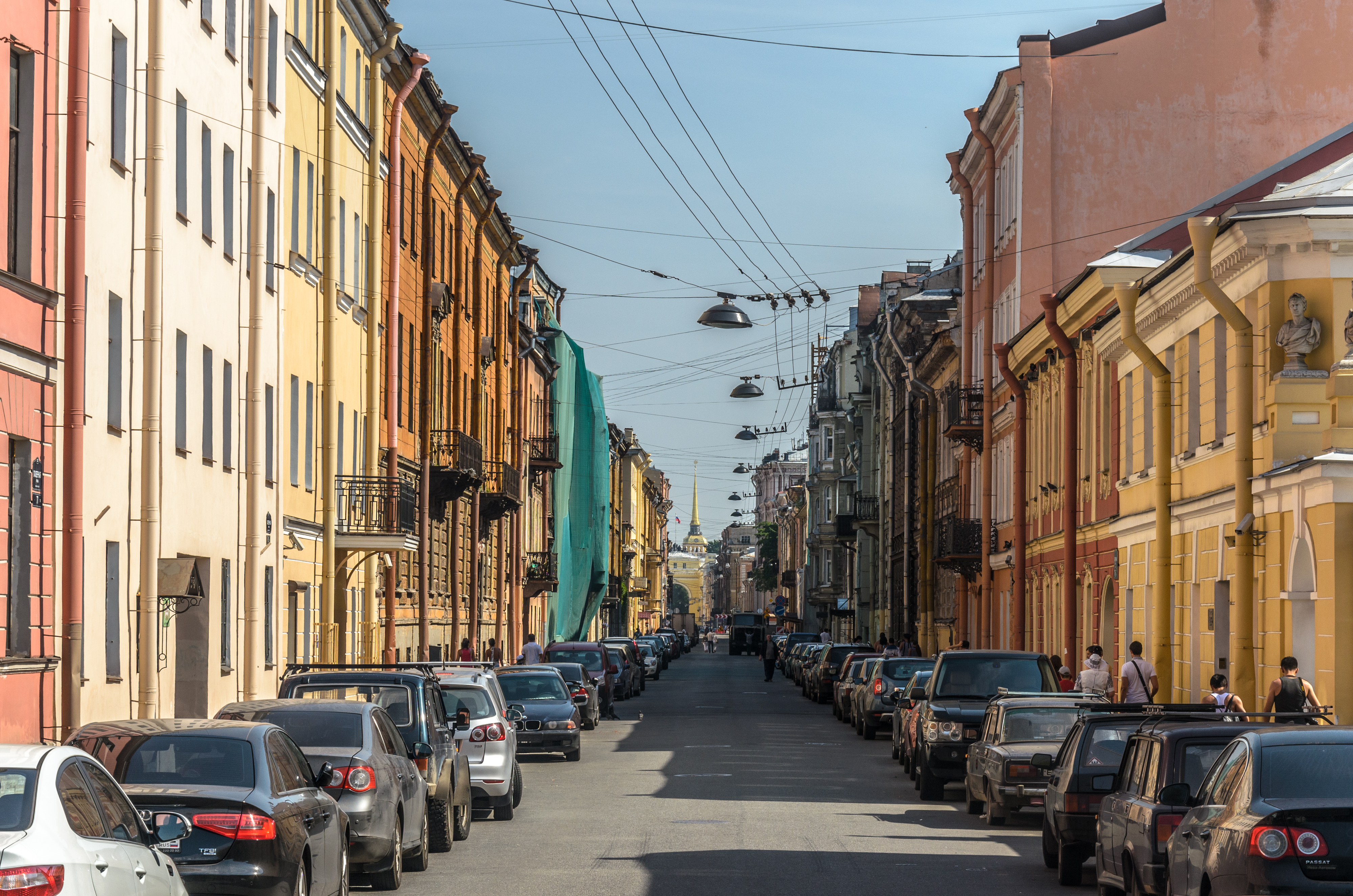 Galernaya Street in Saint Petersburg